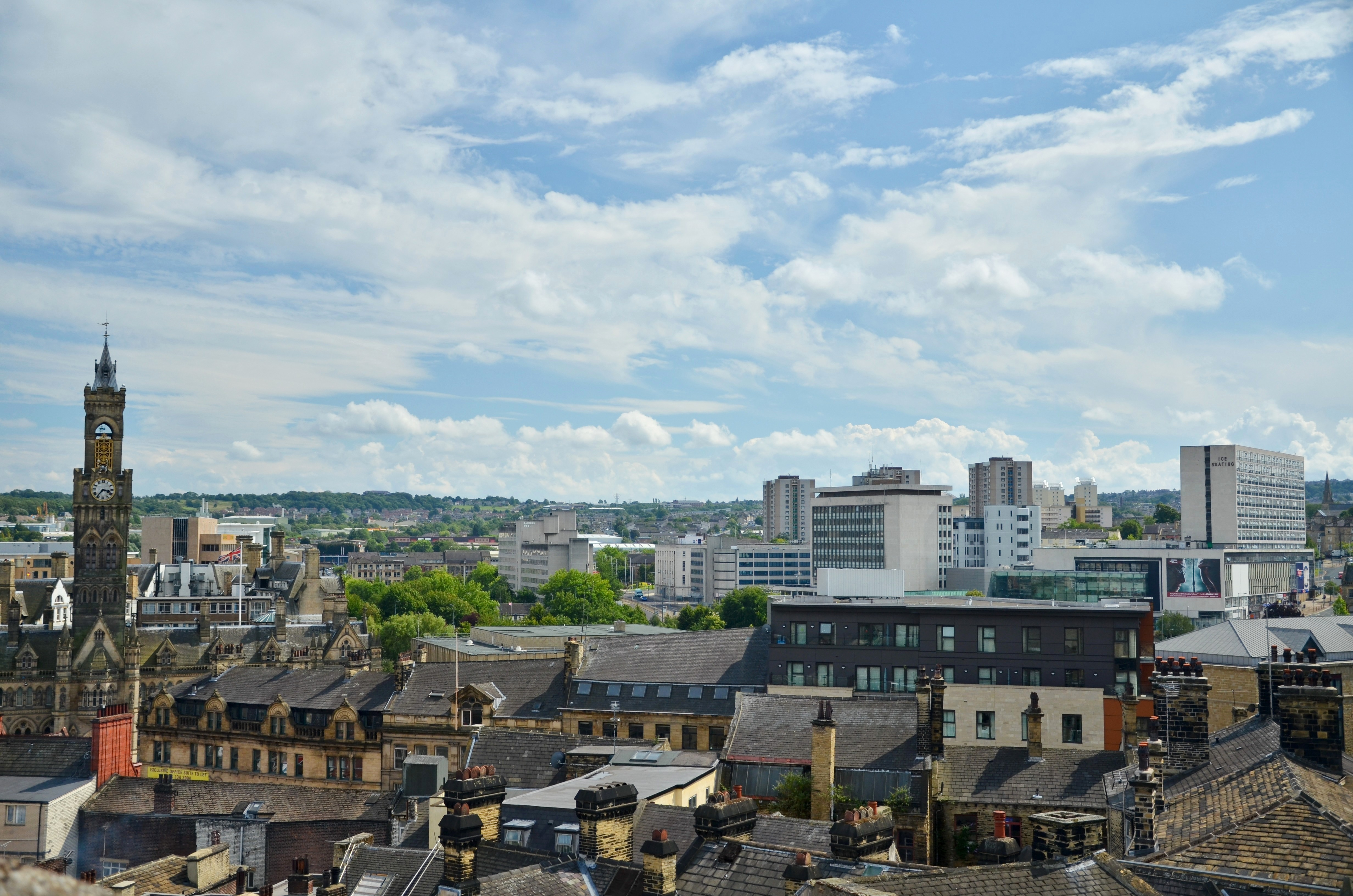 View of Bradford City Centre